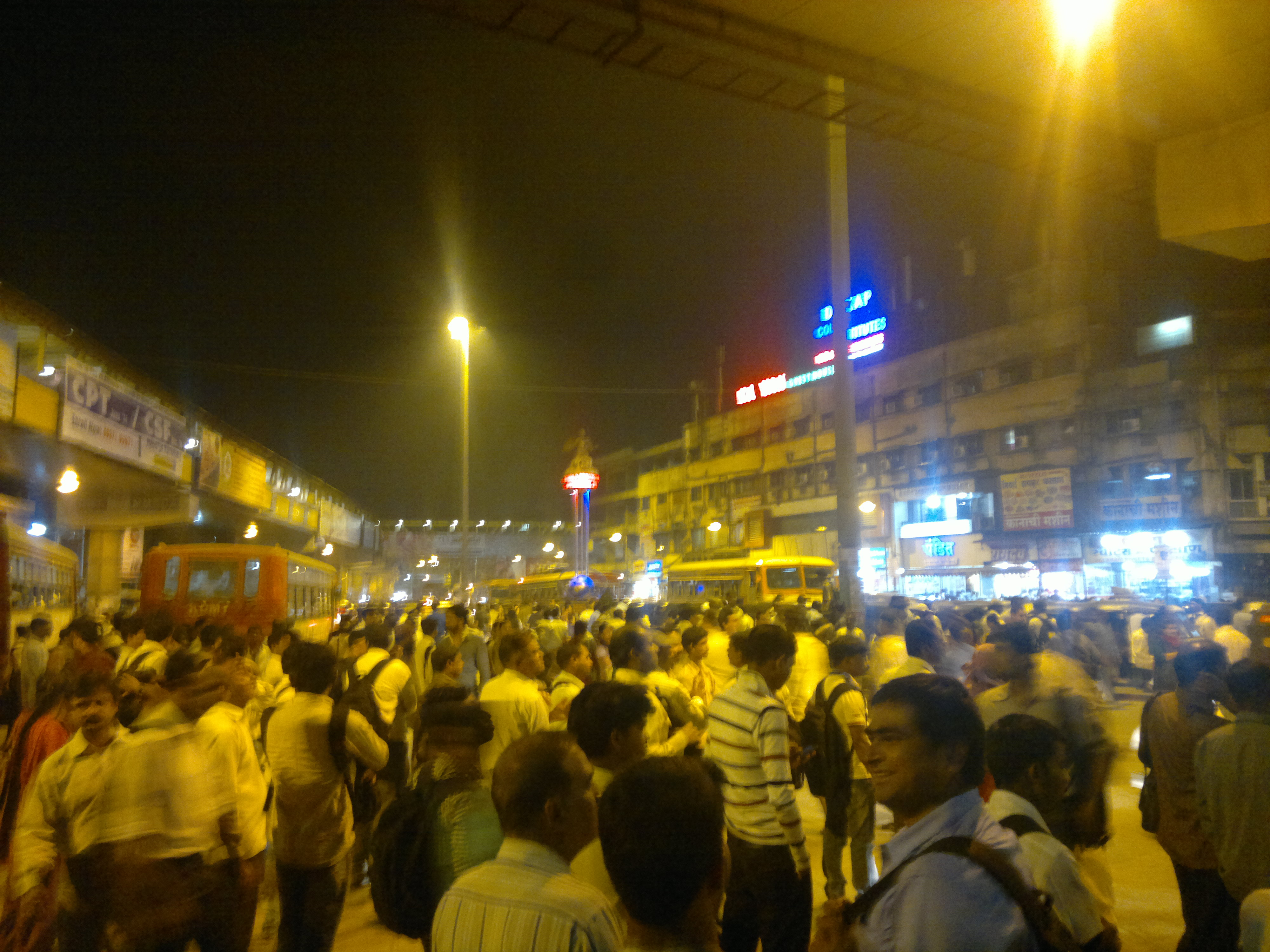 Image depicts over crowd at Kalyan Junction during peak hours.